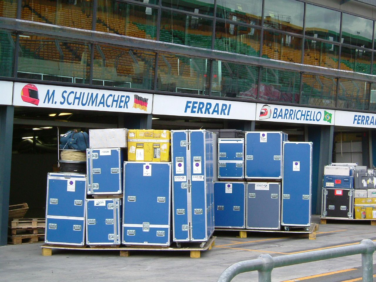 Melbourne Grand Prix - Packing Up